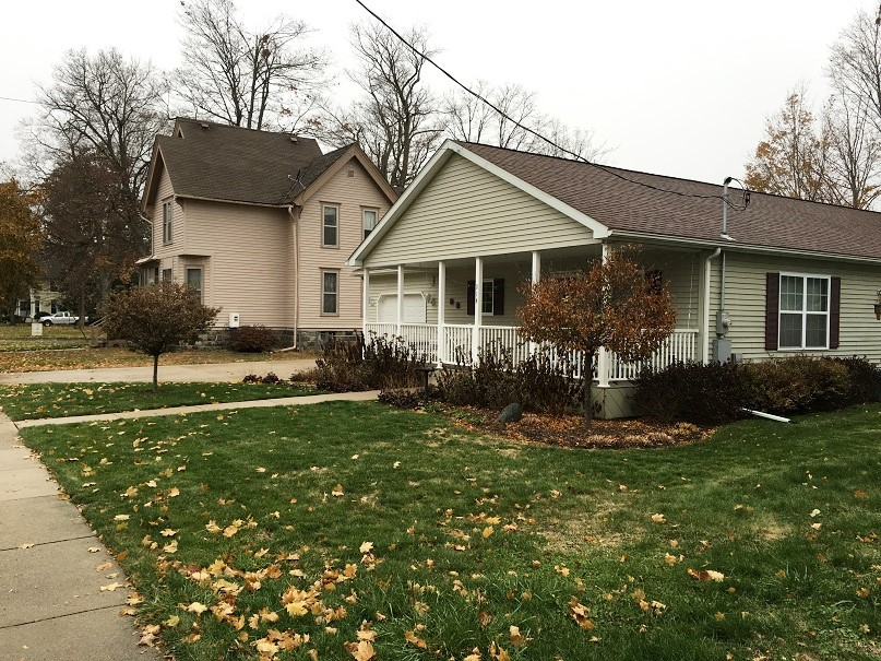 314 W. King St., Owosso, Michigan. House at right in the image is currently located at the listed address.